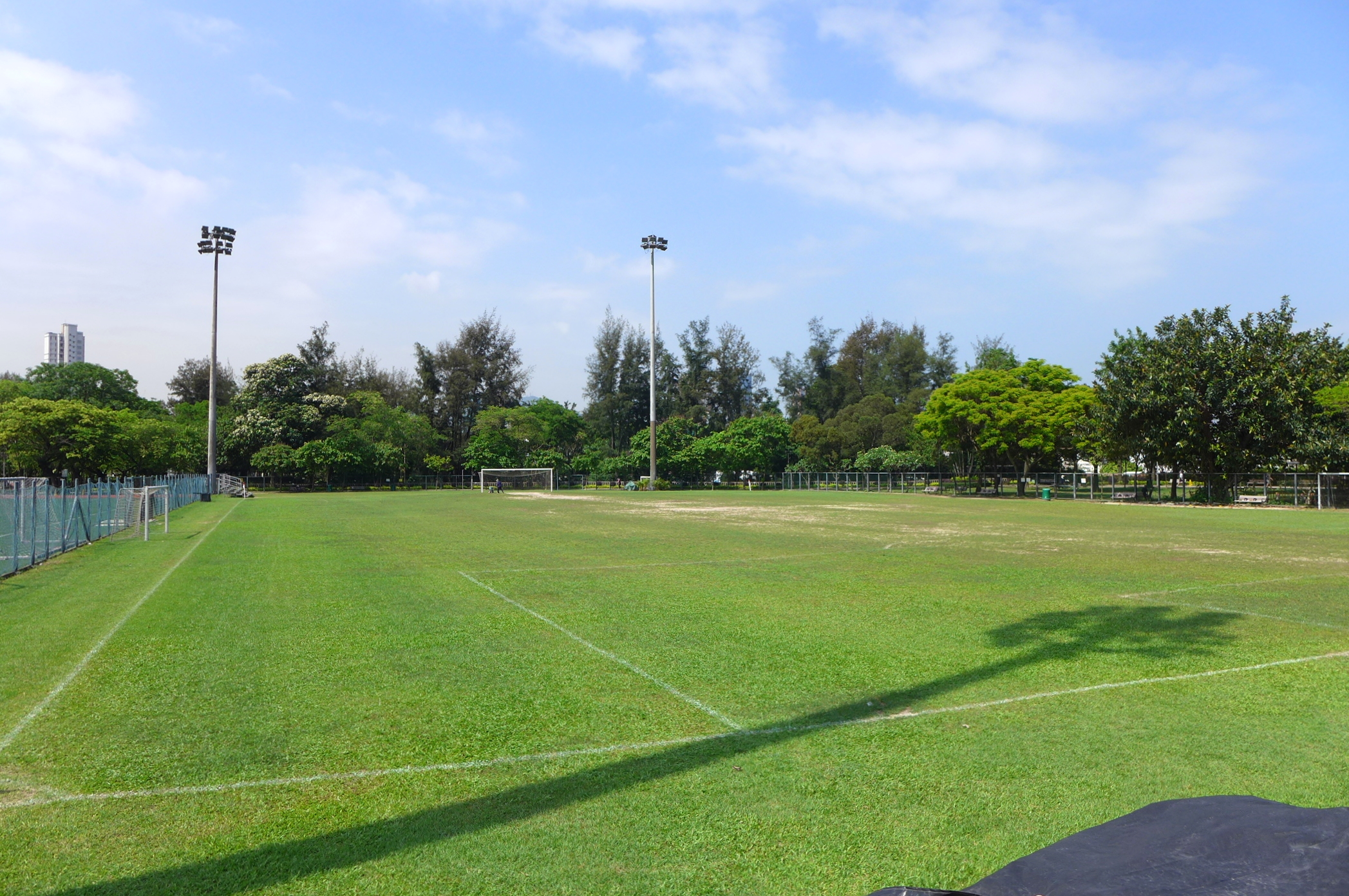 Kowloon Tsai Park Artificial Turf Soccer Pitches